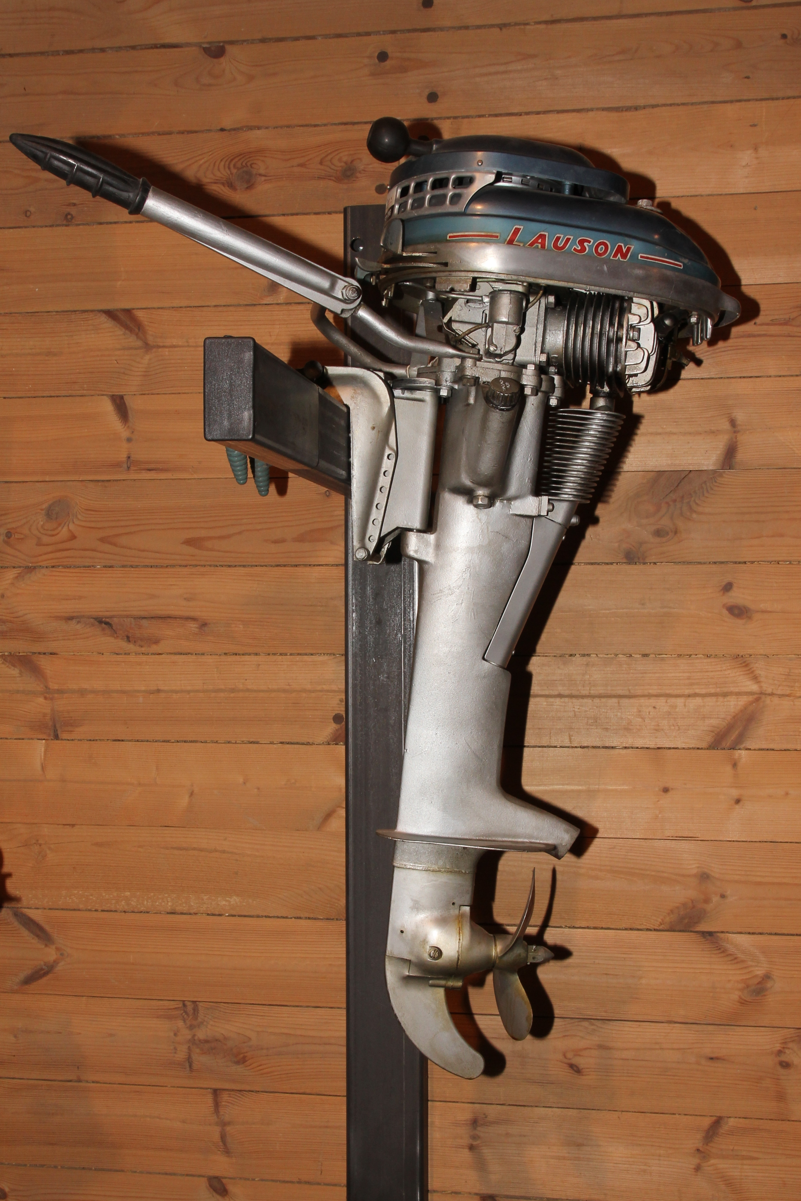 American Lauson outboard motor from 1960s in Forum Marinum maritime museum.